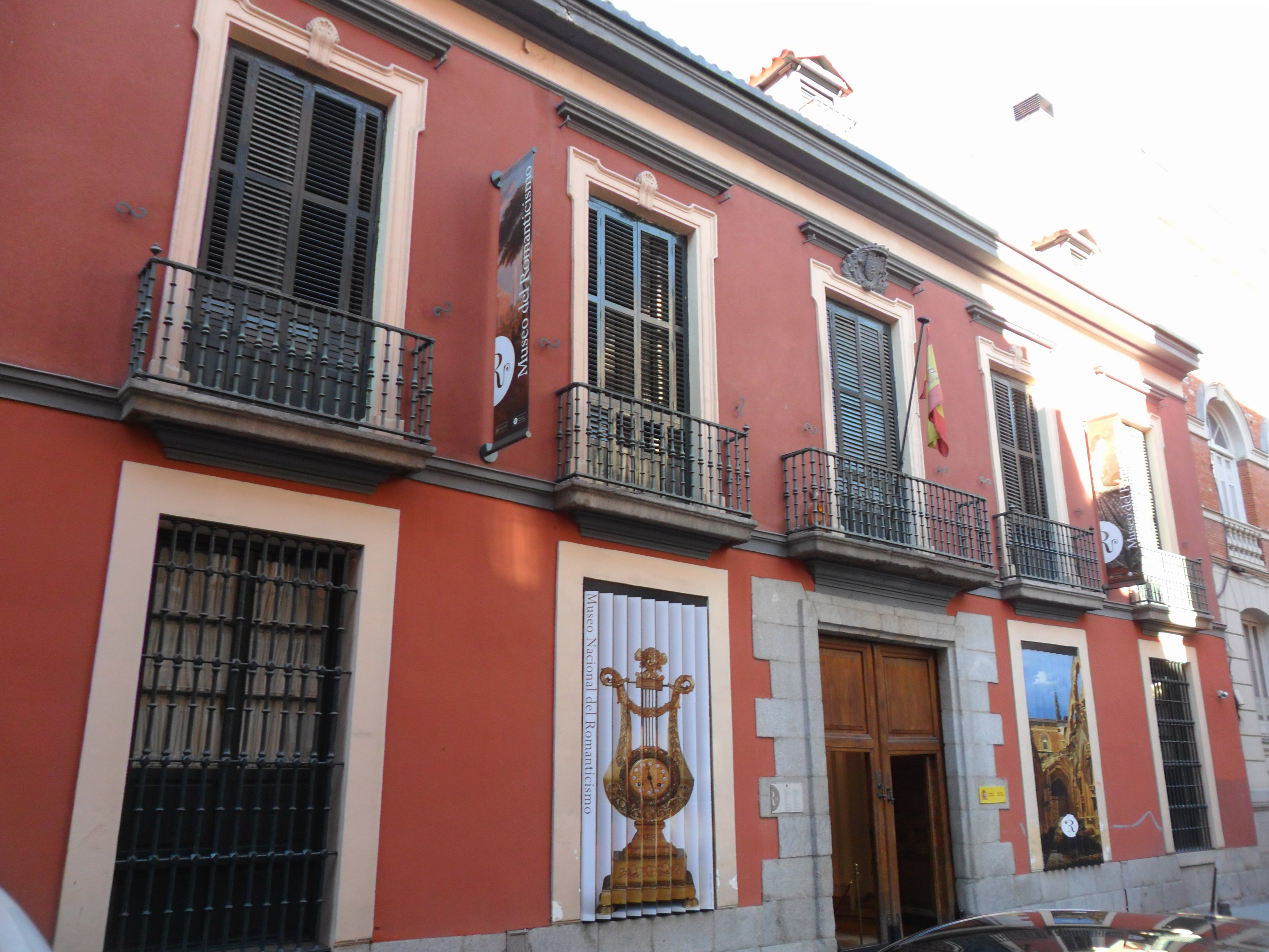 South-east façade of the Museum of Romanticism in Madrid (Spain).